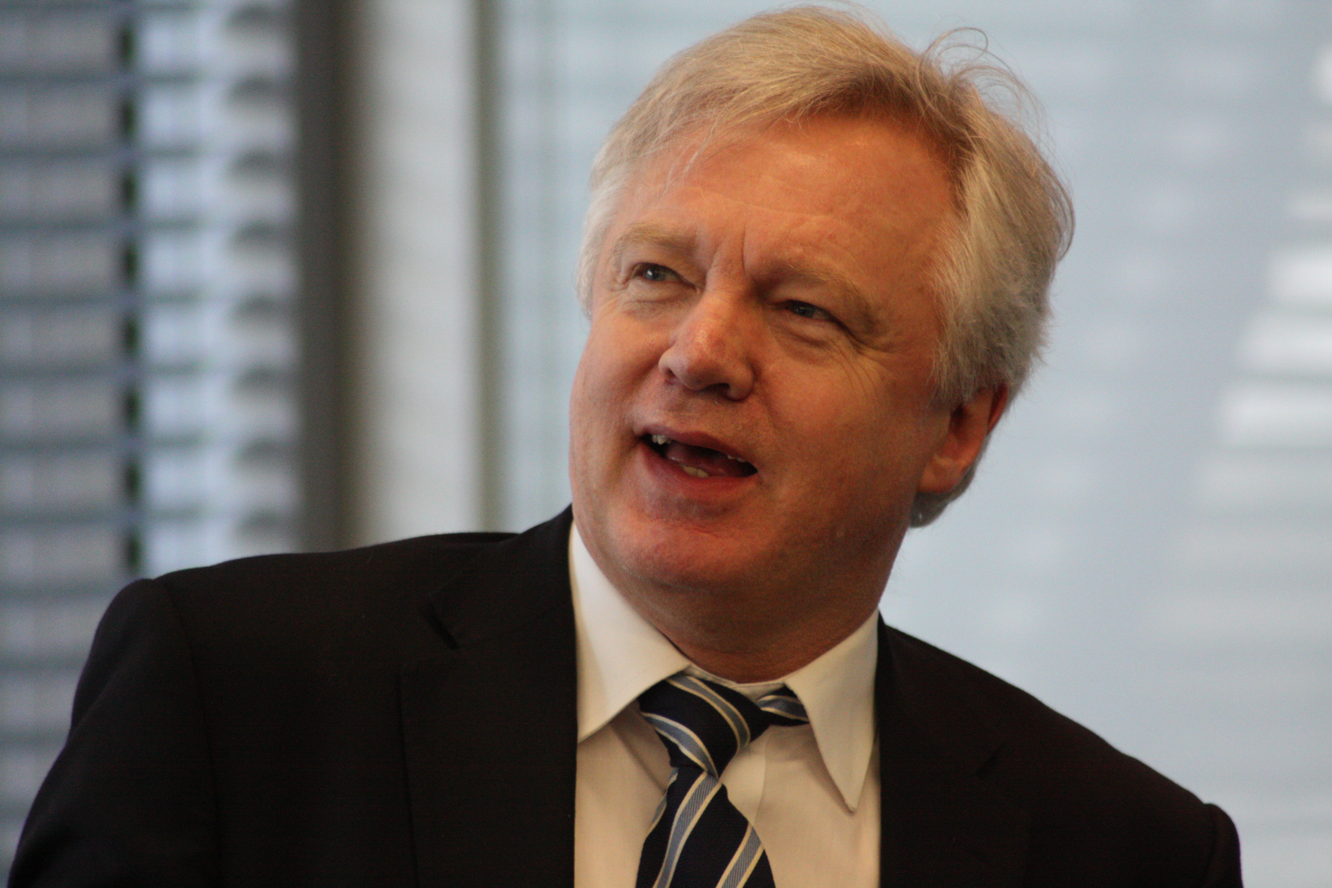 David Davis MP (Conservative). (Photo: Robert Sharp / English PEN)